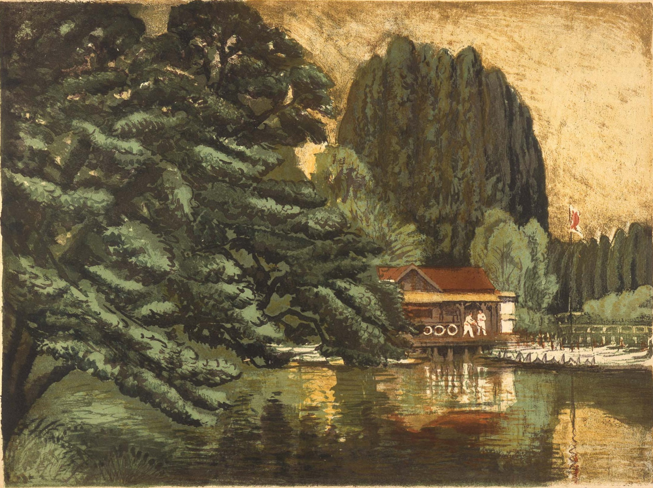 View of Inokashira pond